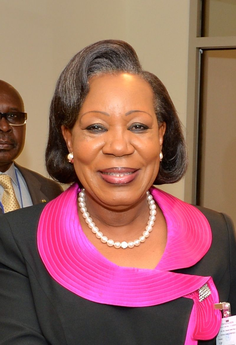 Central African Republic Transitional President Catherine Samba-Panza pictured before the start of the UN Secretary General's High-Level Event on the Central African Republic at the United Nations headquarters in New York City on September 26, 2014. [State Department photo/ Public Domain]